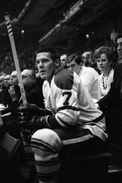 Tim Horton, playing for the Toronto Maple Leafs, sitting in the penalty box at Madison Square Garden, New York City during a game against the New York Rangers.